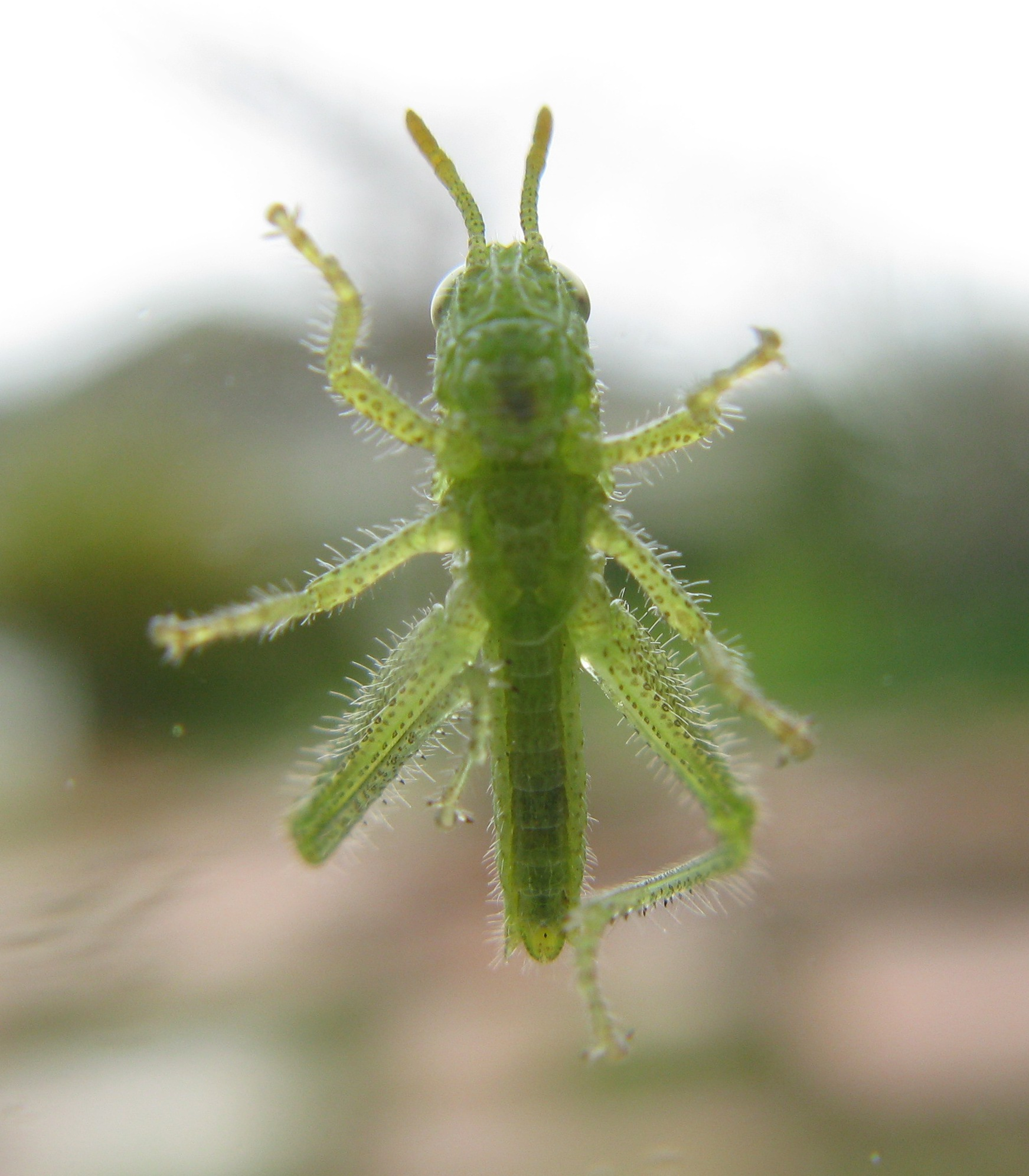 Acanthacris ruficornis Garden Locust nymph, ventral aspect, probably second instar, about 1 cm long, sitting on window glass